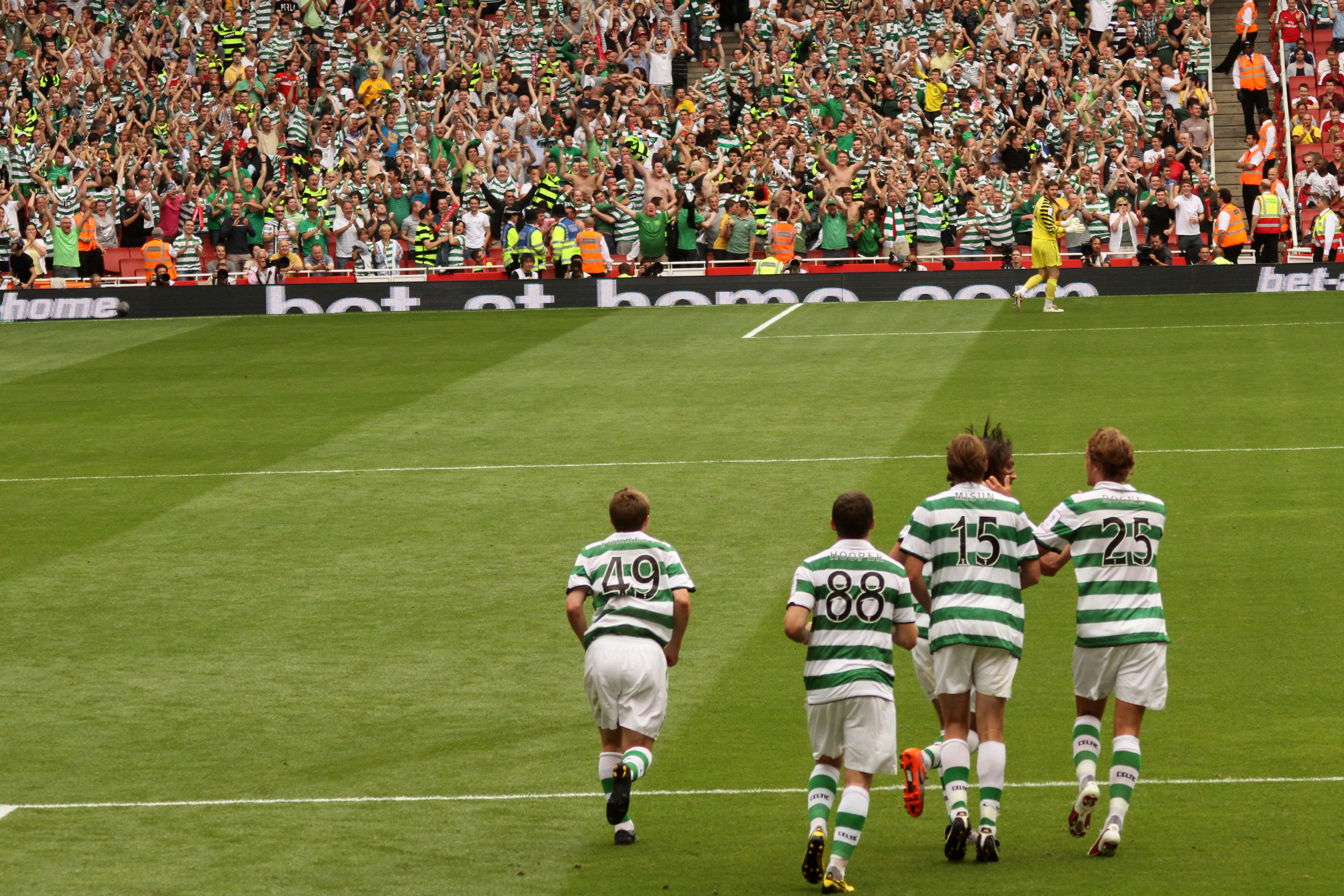 Celtic FC players celebrating a goal.